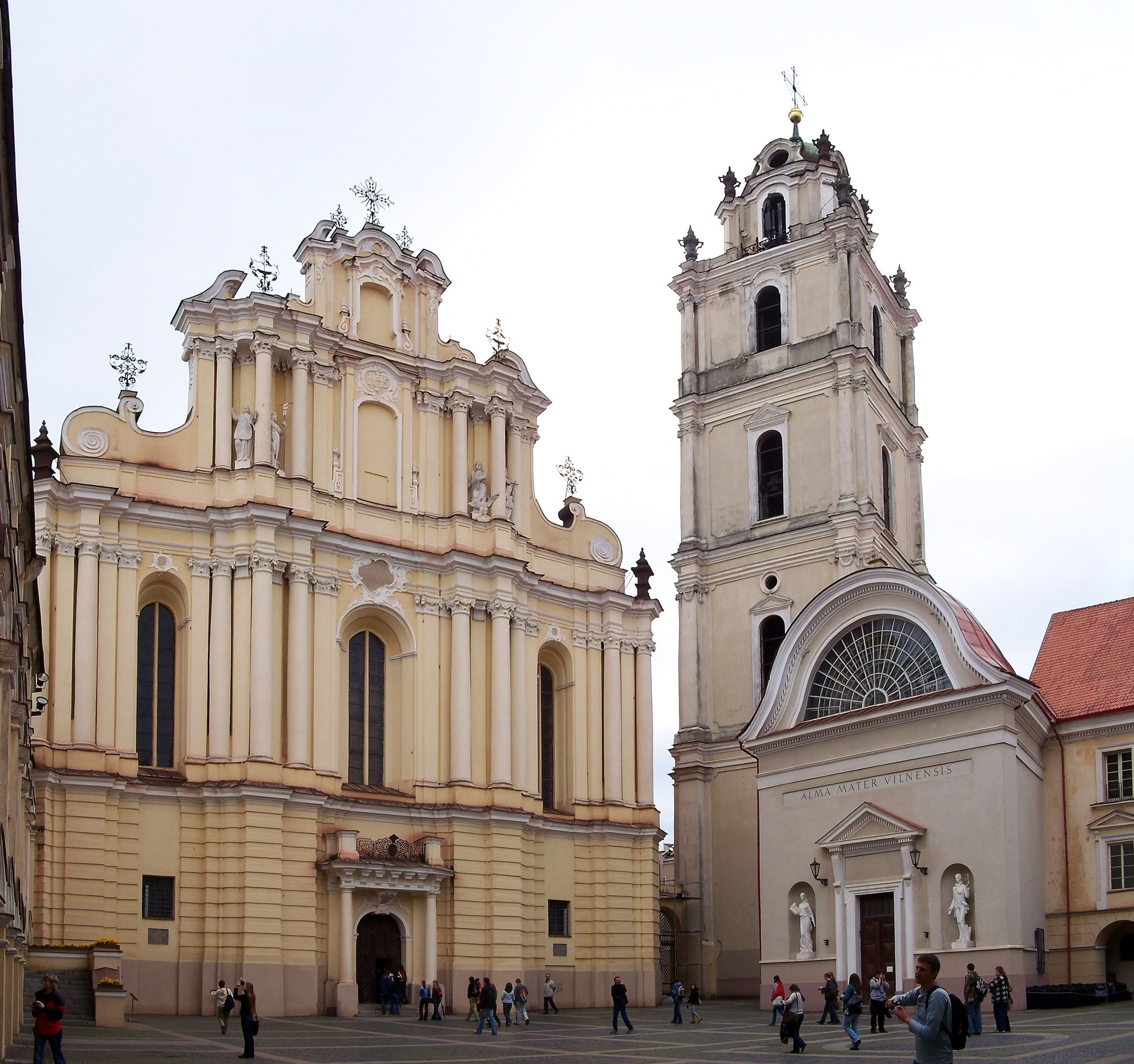 The Grand Courtyard of Vilnius University and the Church of St. John in Vilnius.